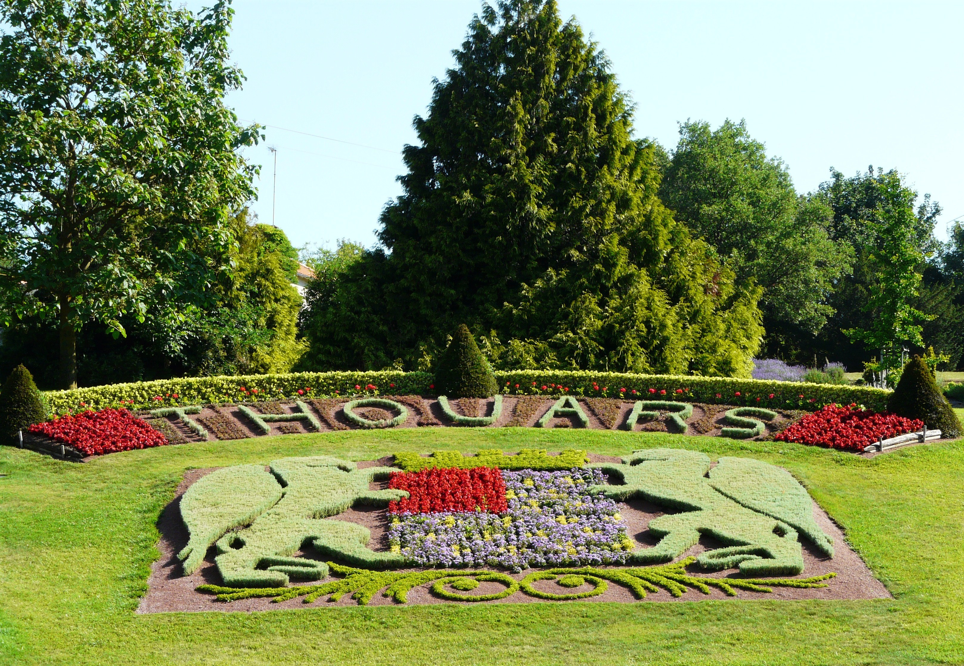 Les armoiries de Thouars, Deux-Sèvres, France